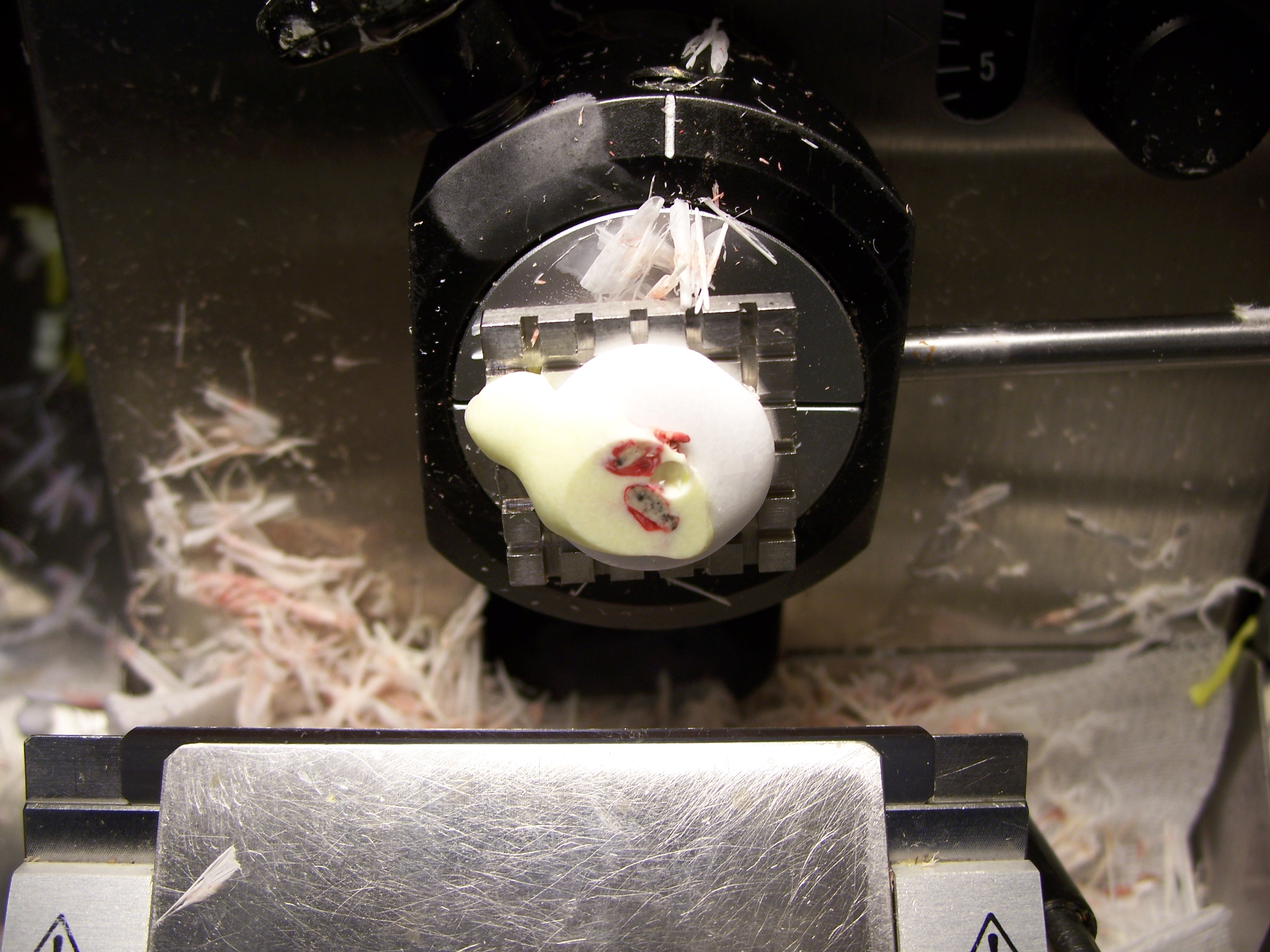 Tissue embedded within optimal cutting temperature (OCT) compound mounted in a cryostat for production of a rapid (frozen) section for histologic examination.